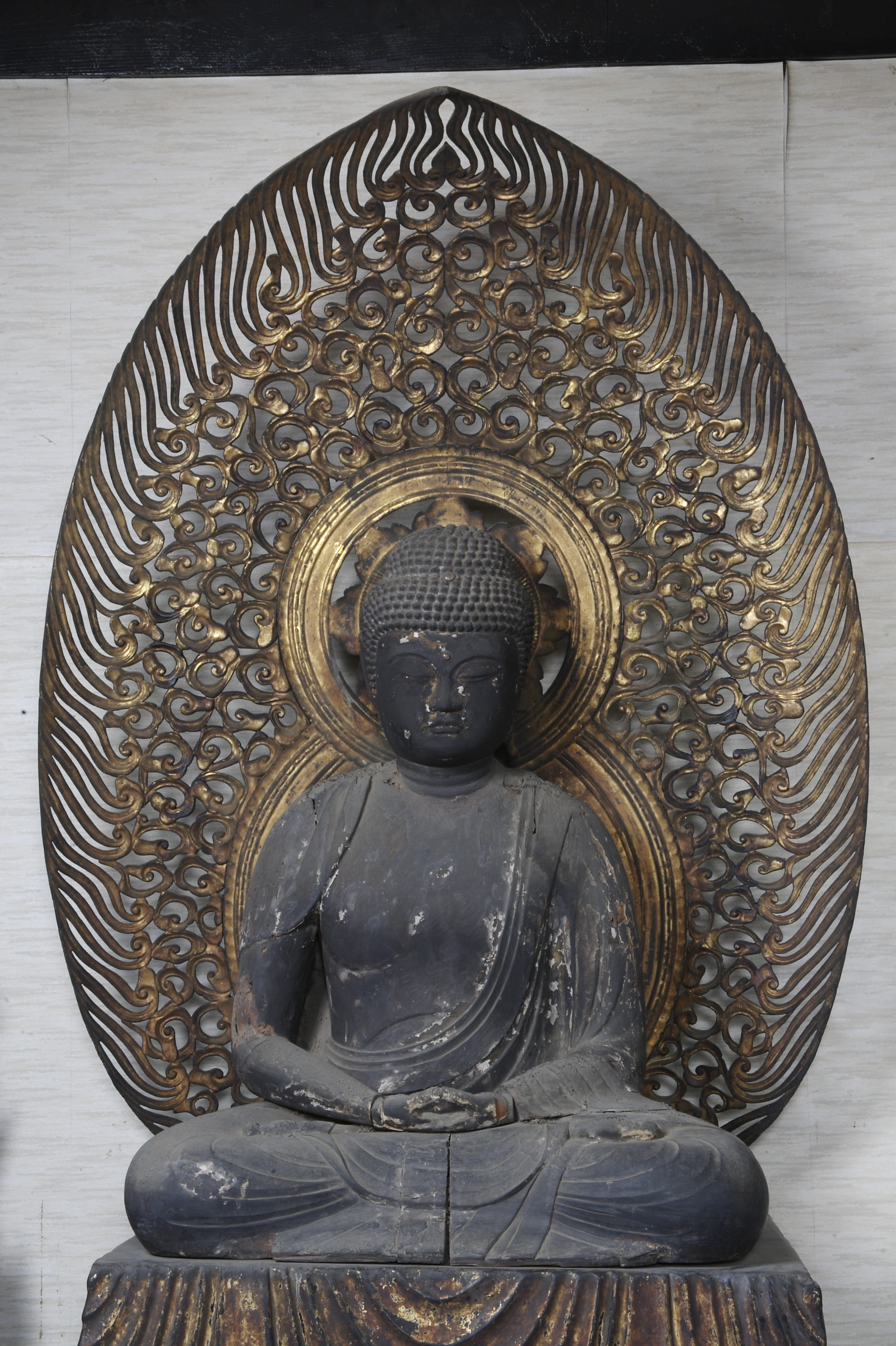 Buddha able to cure all ills in the temple of hasehon.Heian period of production or Kamakura period .